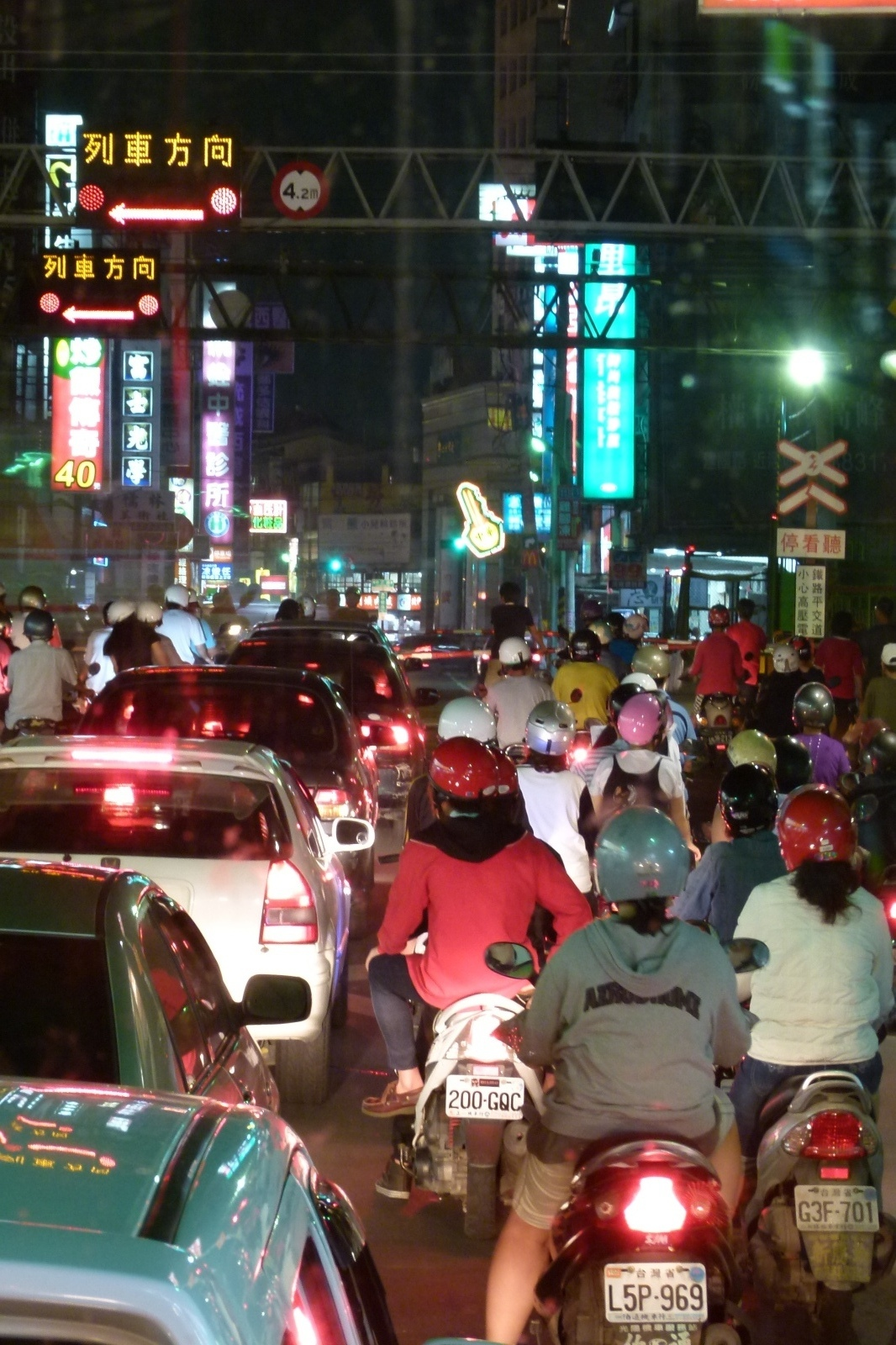 Night in Jingxiu Road Level Crossing, Yuanlin Township, Changhua County.